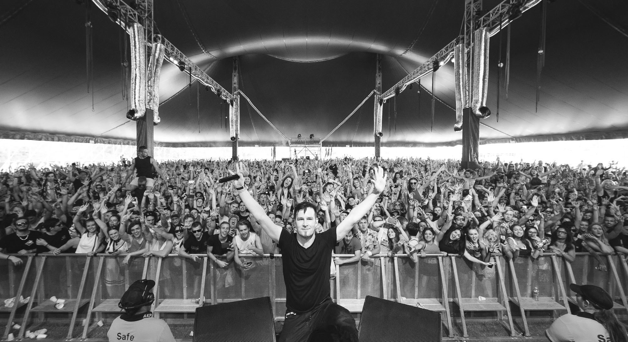 PerthFMF